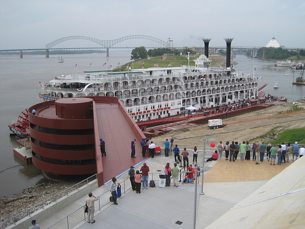 The American Queen at the christening ceremony on April 27 2012 at Beale Street Landing in Memphis, Tennessee.